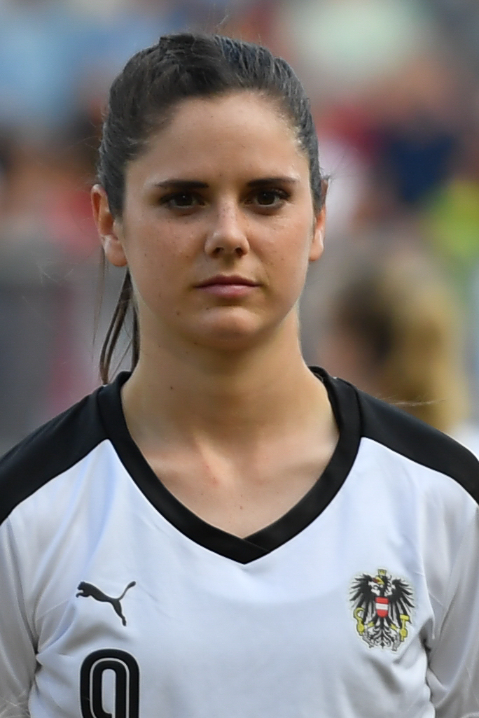 3/8/2017, Breda, Netherlands, sports, soccer, UEFA Women's Euro 2017 - Semifinal - Denmark vs Austria.